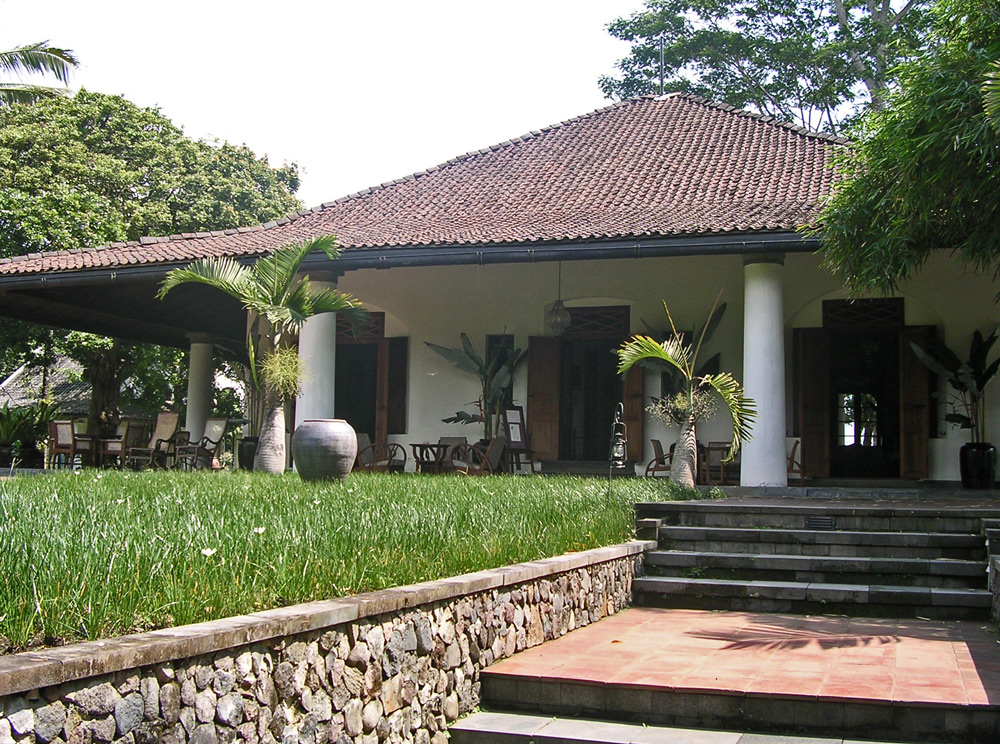 19th century Indo-European hybrid plantation villa. Now part of Losari resort, Magelang, Central Java, Indonesia. Taken by myself, User:Merbabu. 2005